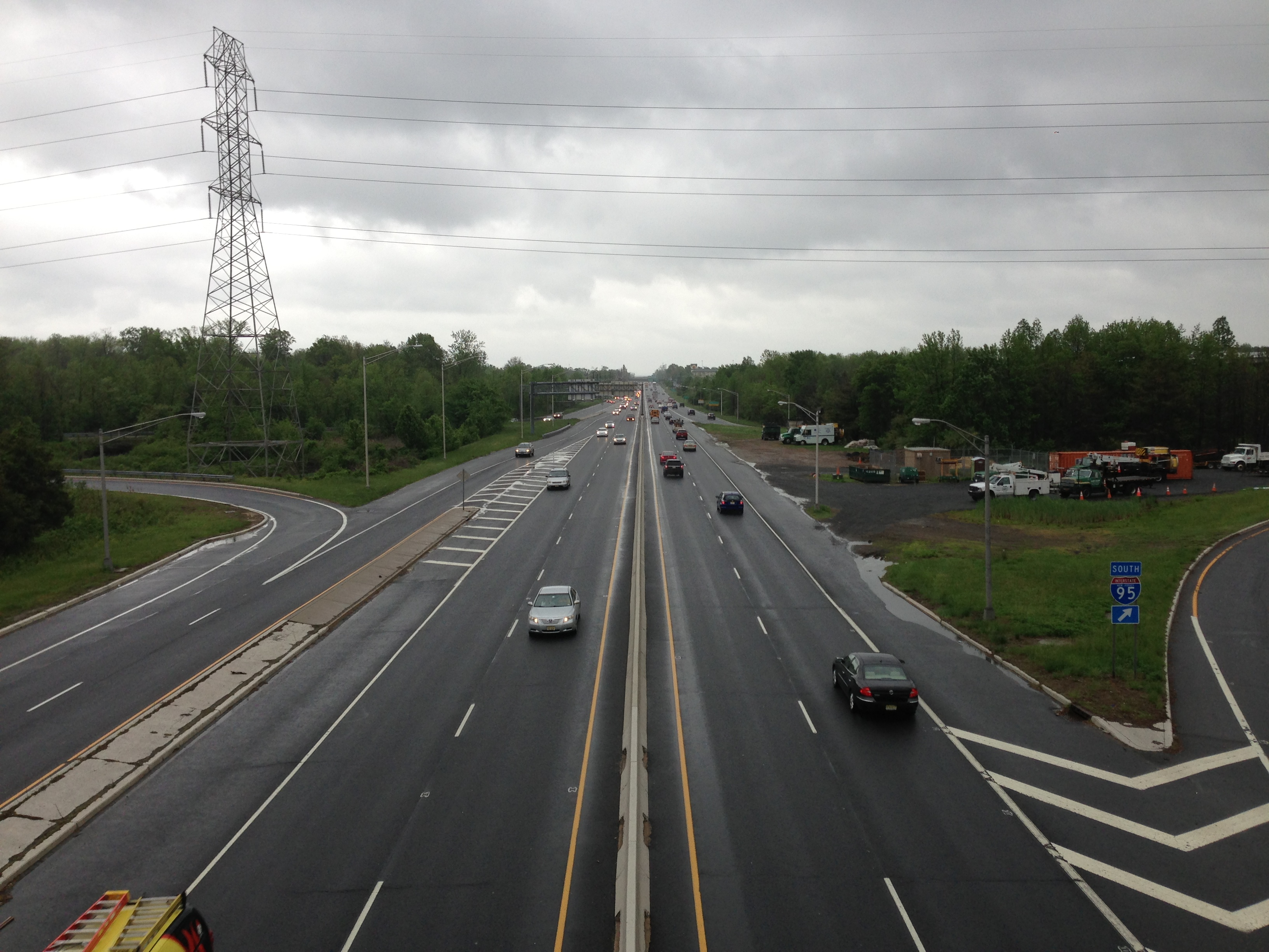 View north along U.S. Route 1 (Brunswick Pike) from the overpass for Interstate 295 (Camden Freeway) in Lawrence Township, Mercer County, New Jersey